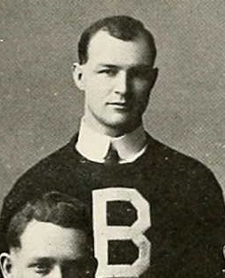 Photograph of Oscar Rackle, Indiana University basketball coach